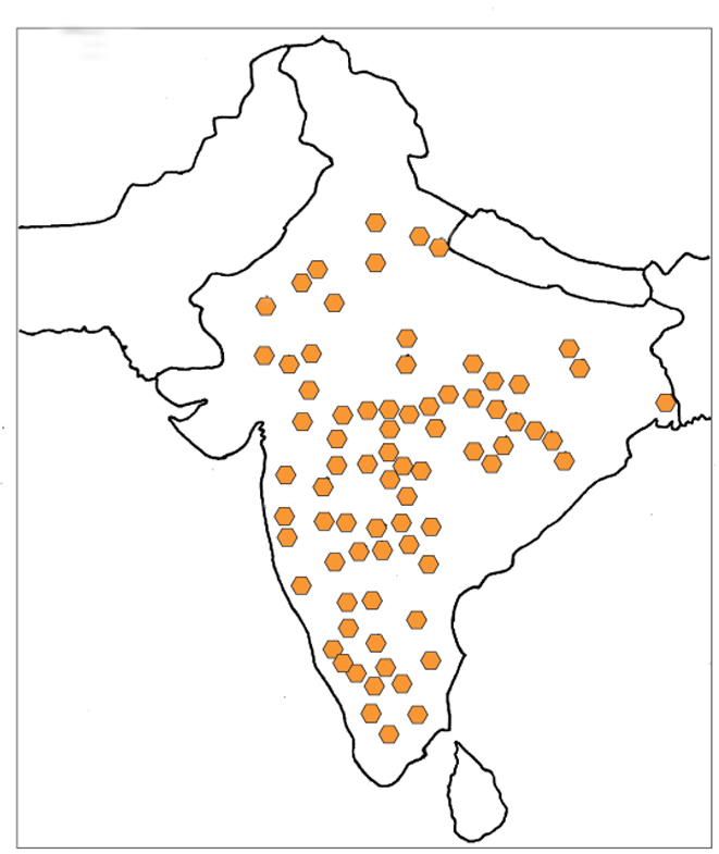 Distribution of Boswellia serrata in India.